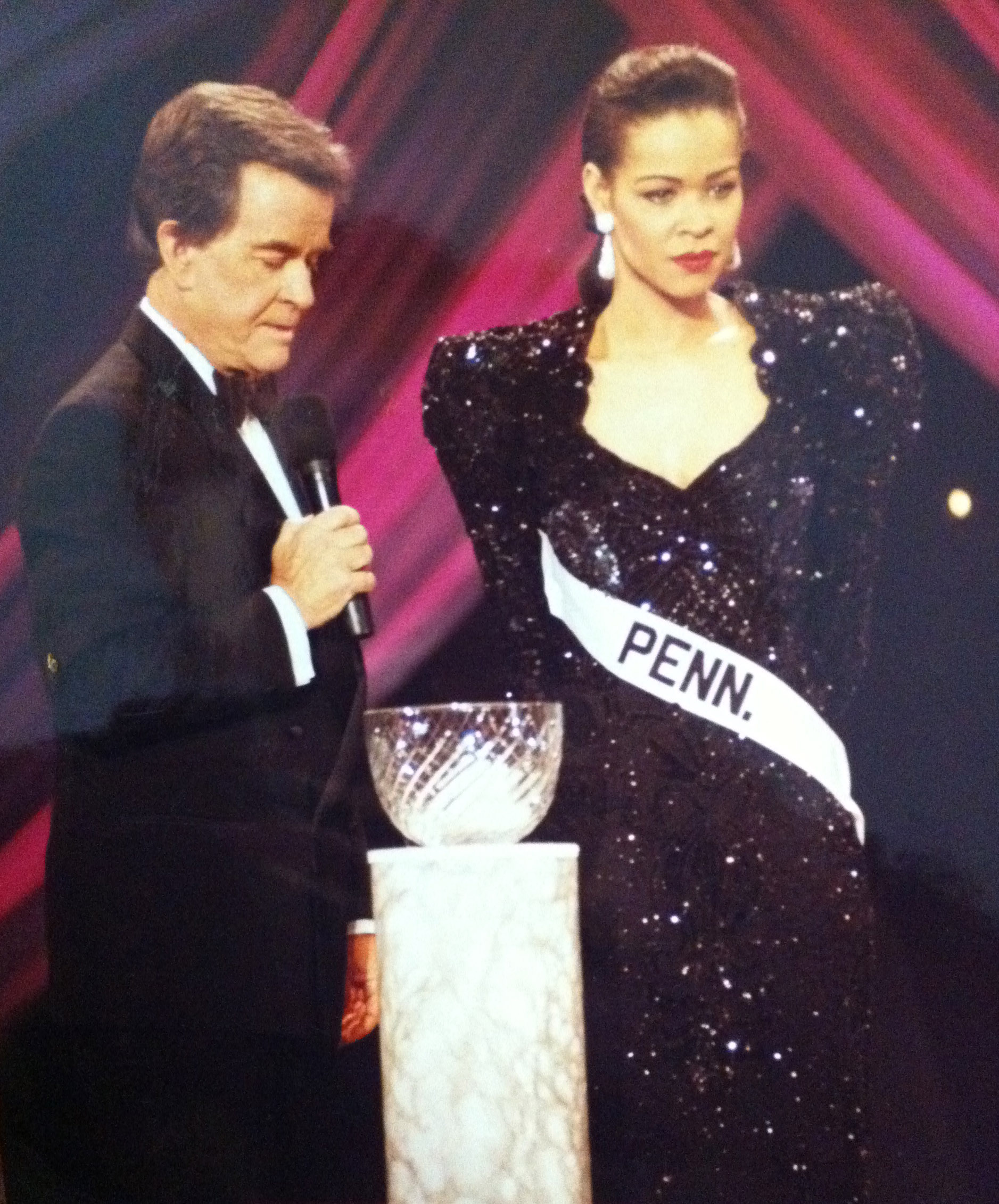 Kimmarie Johnson with Dick Clark at the Ms USA 1993 Pageant.